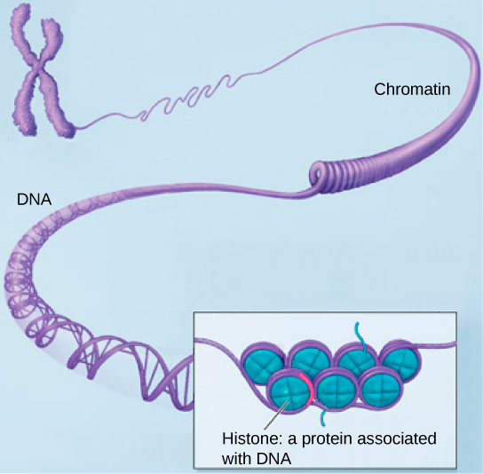 Name: Biology ID: Language: English Summary: Biology is designed for multi-semester biology courses for science majors. It is grounded on an evolutionary basis and includes exciting features that highlight careers in the biological sciences and everyday applications of the concepts at hand. To meet the needs of today’s instructors and students, some content has been strategically condensed while maintaining the overall scope and coverage of traditional texts for this course. Instructors can customize the book, adapting it to the approach that works best in their classroom. Biology also includes an innovative art program that incorporates critical thinking and clicker questions to help students understand—and apply—key concepts. Subjects: Science and Technology Keywords: cells,DNA,gene,expressio,nphylogeny,conservation,biodiversity,biology,chemistry,evolution,proteins,bacteria,fungi,cell,membranes,inheritance,physiology,ecology,genetics,biotechnology,biosphere,photosynthesis,biological,molecules,cell structure,metabolismc,ellular respiration,genes,cell communication,cell reproduction,meiosis,sexual reproduction,genomics,study of life,cell function,animal diversity,animal reproduction,plant nutrition,soilseedless plantsplant physiologyplant reproductionanimal bodycirculatory systemdigestive systemendocrine systemnervous systemrespiratory systemorigin of speciesecosystemsarchaeasensory systemosmotic regulationimmune systemvertebratesviruspopulation ecologymusculoskeletal systembehavioral biologyanimal biologyanimal physiologybiology for majorscollege biologyeukaryotesinvertebratesmacromoleculesplant biologypopulation evolutionprokaryotesprotistsseed plants Print Style: CCAP Biology License: Creative Commons Attribution License (by 4.0) Authors: OpenStax Copyright Holders: Rice University Publishers: OpenStax OpenStax Biology Latest Version: 10.53 First Publication Date: Aug 22, 2012 Latest Revision: May 27, 2016 Last Edited By: OpenStax Biology